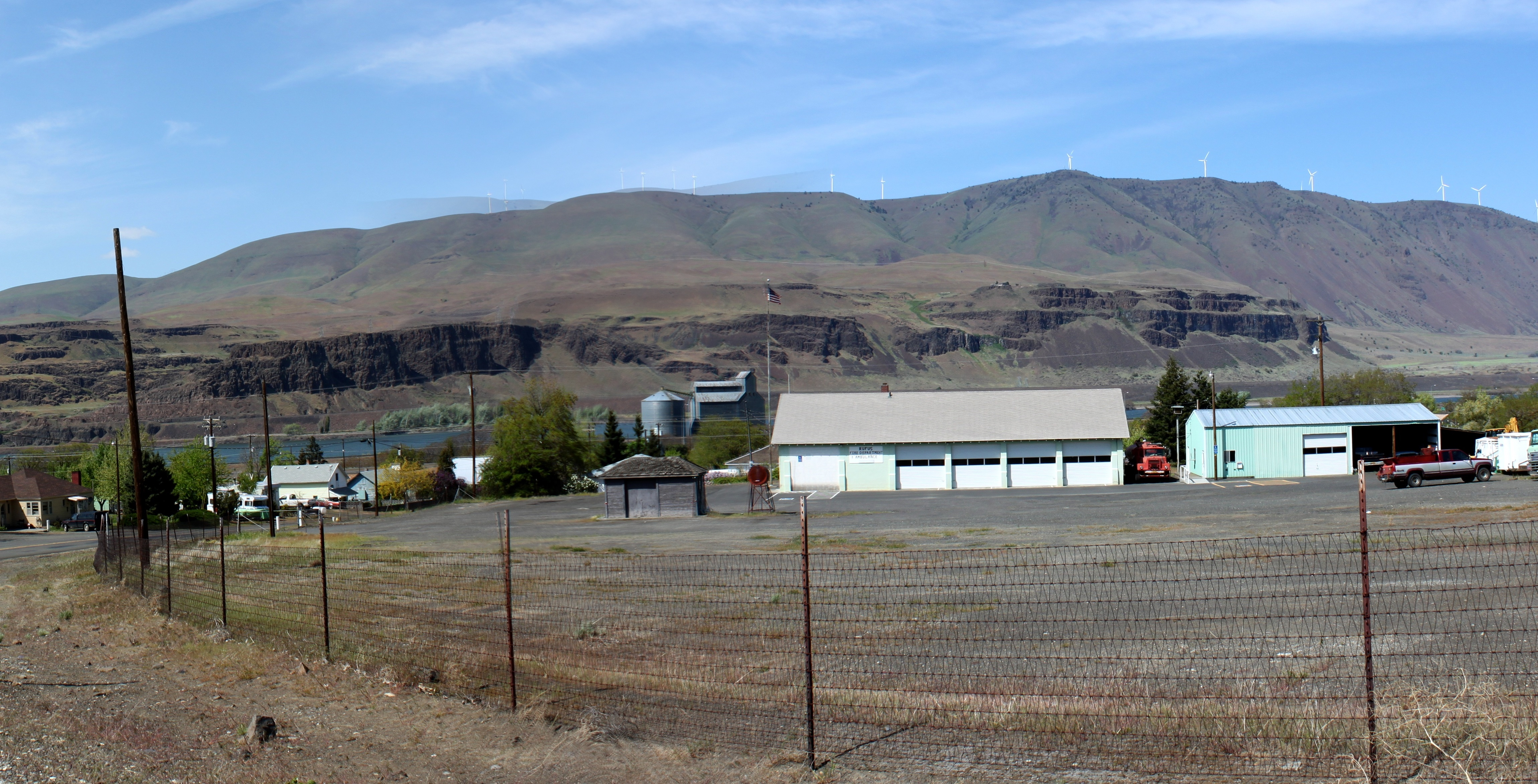 Cityscape of Rufus, Oregon.